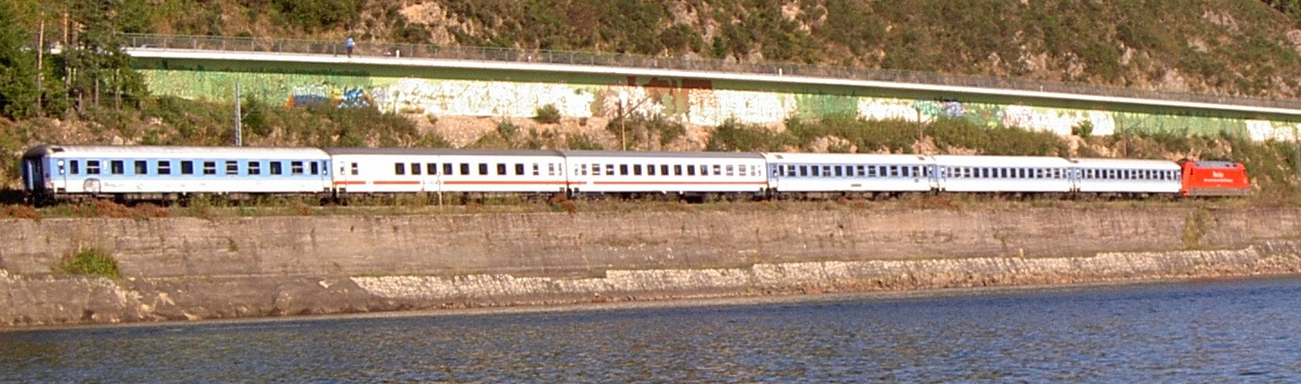 Dreiseenbahn at Schluchsee